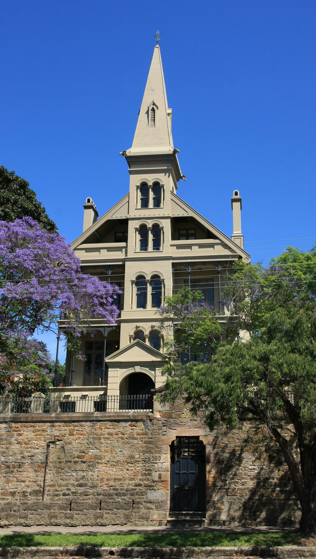 Kenilworth: Johnston Street, Annandale built 1888-1889 The house Sir Henry Parkes rented for the last years of his life and died there in 1896.